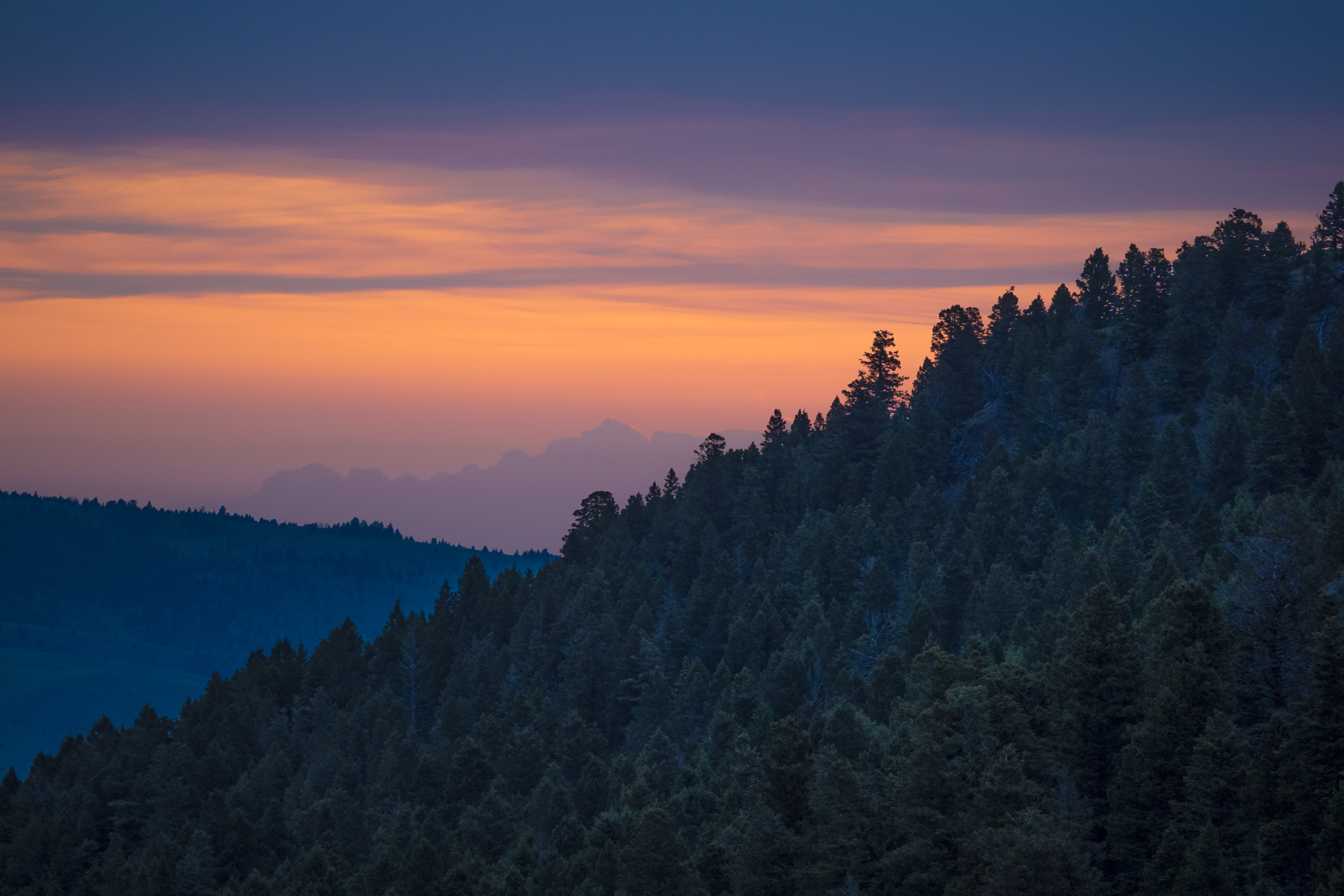 The sun rises over the Madison Mountain Range in the Beaverhead-Deerlodge National Forest. The Beaverhead-Deerlodge National Forest is the largest of the national forests in Montana, covering 3.35 million acres and throughout eight Southwest Montana counties. USDA Photo by Preston Keres